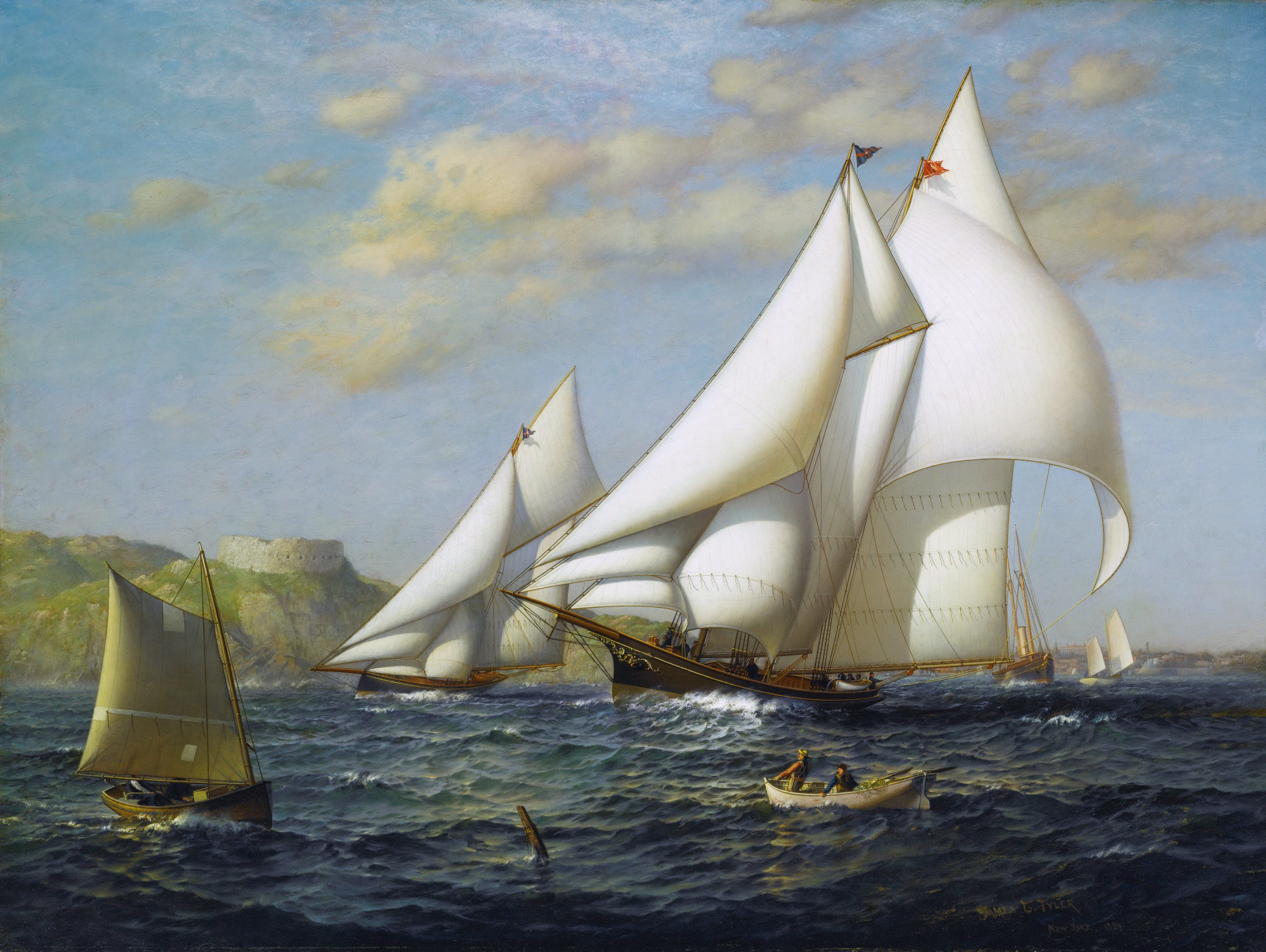 New York Yacht Club racing boats in New York Harbor oil on canvas 76.5 x 102 cm signed b.r.: James G. Tyler / New York 1884